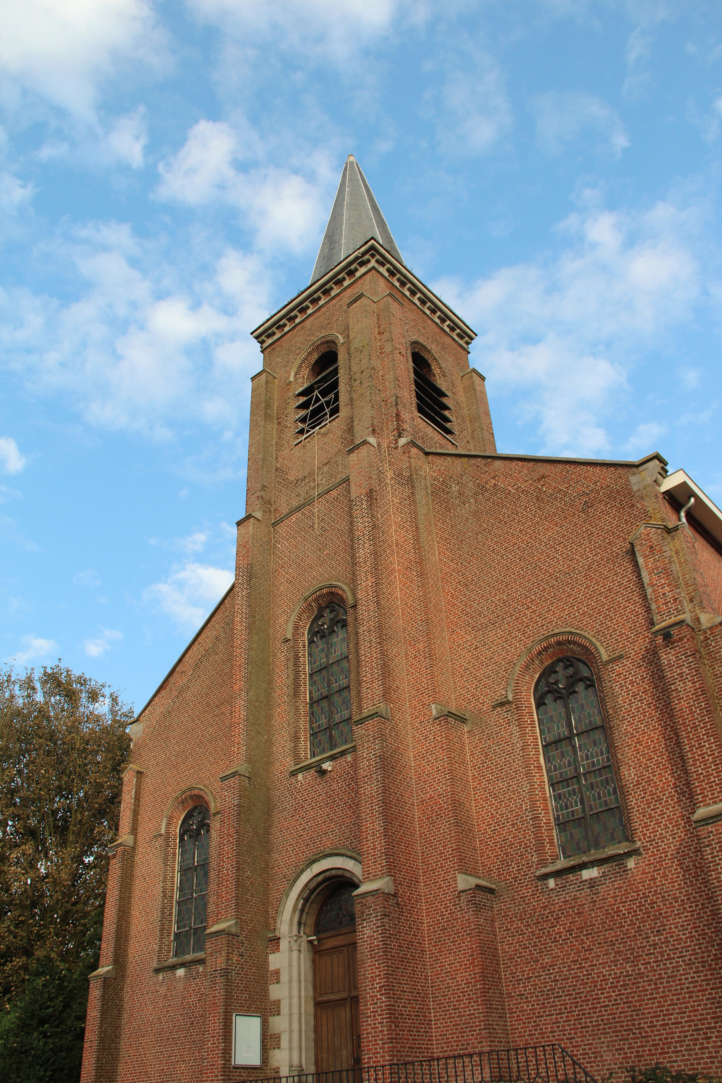 Froidmont (Belgium), the church of Saint Piatus.